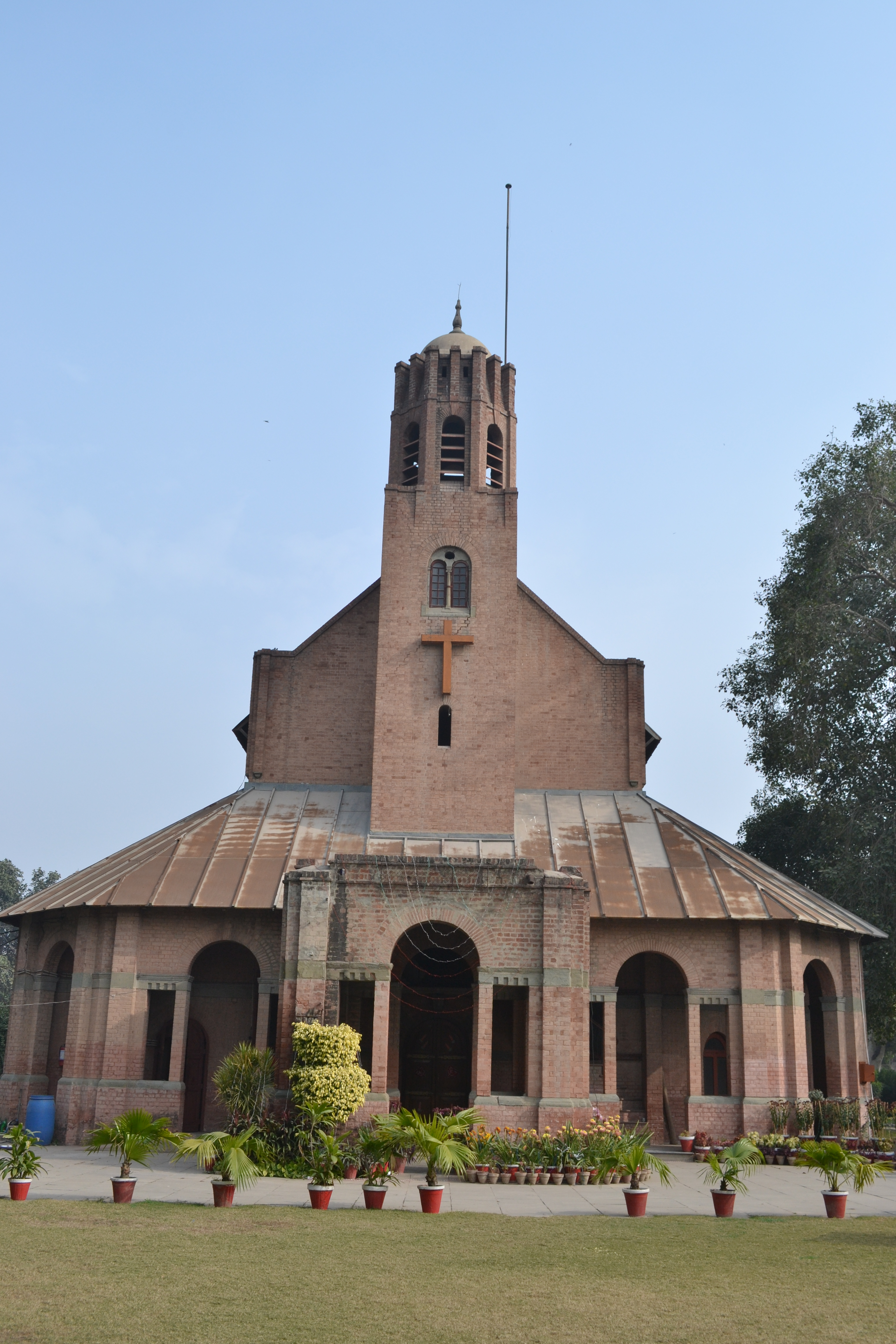 St. Andrew's Church, Lahore front